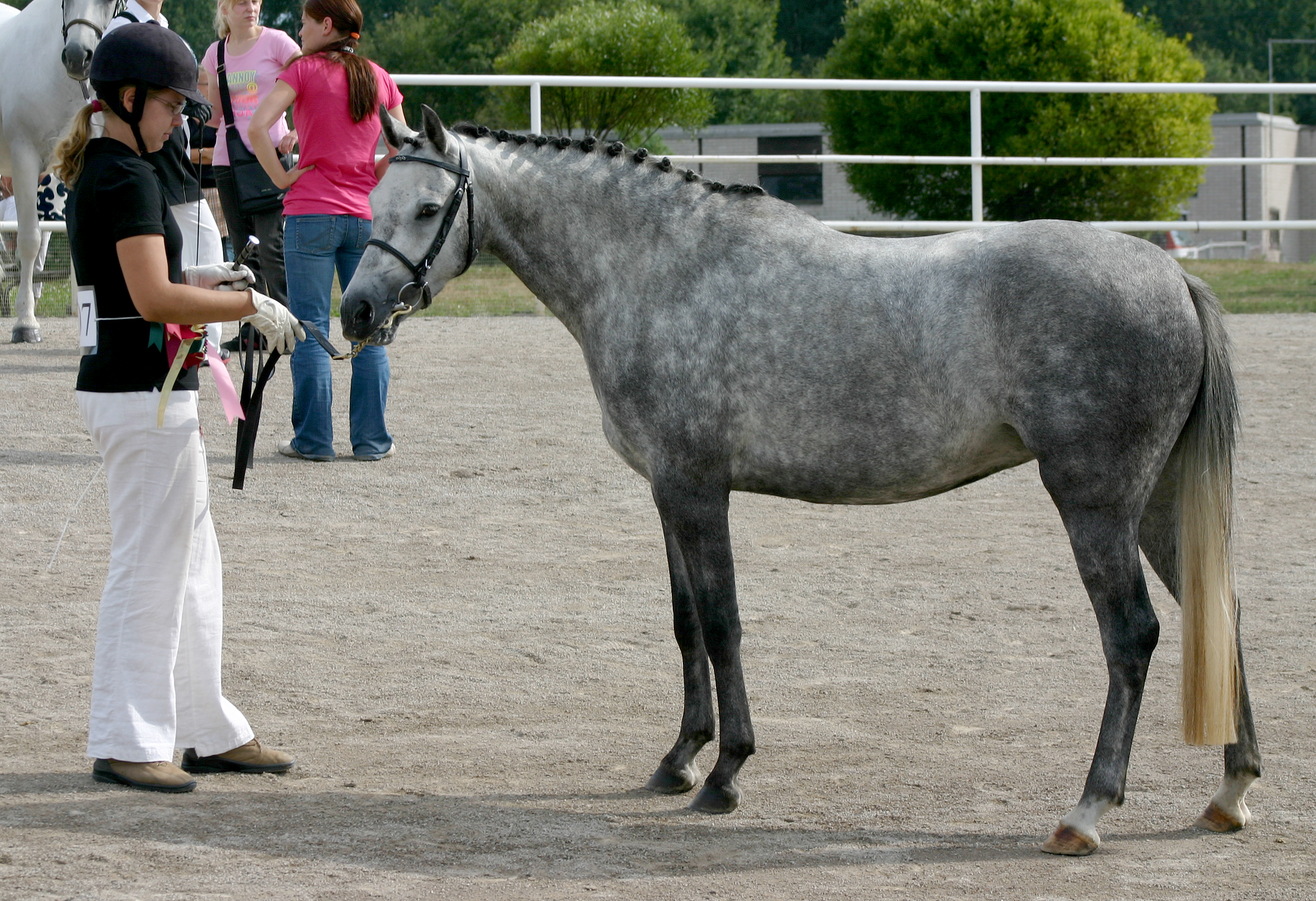 A 4-year-old grey Welsh Part-Bred mare.